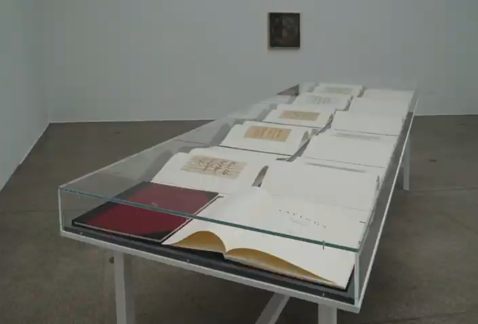 Ed Ruscha's exhibition Double Americanisms at the main hall of the SECESSION showcases altogether fifty-seven mainly recent works—conceptual digital prints and an extended series of painted language pictures as well as handmade book objects and artist’s books in display cases. Artworks For All Age Groups, the exhibition PhilippTimischl has created for his show at the Secession, is an orchestrated installation of photographs, collages, and sculptures. Keys Open Doors: The Estonian artist Kris Lemsalu creates complex sculptures, installations, and performances that fuse the animal kingdom with humankind, nature with the artificial, beauty with repulsion, lightness with gravity, life with death. Nov.16th, 2018 – Jan. 20th, 2019. In Ed Ruschas Ausstellung Double Americanisms im Hauptraum der SECESSION sind insgesamt 57 neueste Arbeiten – neben konzeptuellen Digitaldrucken und einer umfassenden Serie von gemalten Spruchbildern auch von Hand bearbeitete Buchobjekte und Künstlerbücher in Vitrinen. Philipp Timischls für die Secession geschaffene Ausstellung Artworks For All Age Groups umfasst Fotografien, Bildwerke und Skulpturen, die vom ihm installativ inszeniert werden. Keys Open Doors: Kris Lemsalu schafft in ihren vielschichtigen Skulpturen, Installationen und Performances Verschmelzungen von Tieren mit Menschen, Natürlichkeit mit Künstlichkeit, Schönheit mit Abstoßung, Leichtigkeit mit Schwerkraft, Leben mit Tod. 16.11.2018 – 20.01.2019.